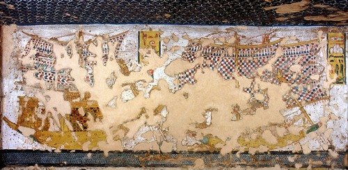 Star pattern; sailing boats on pilgrimage to Abydos. Scene from tomb of Ramses III. (KV11)